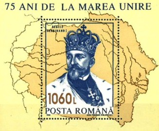 Ferdynand I (Ferdynand Viktor Albert Mejnard Hohenzollern-Sigmaringen)